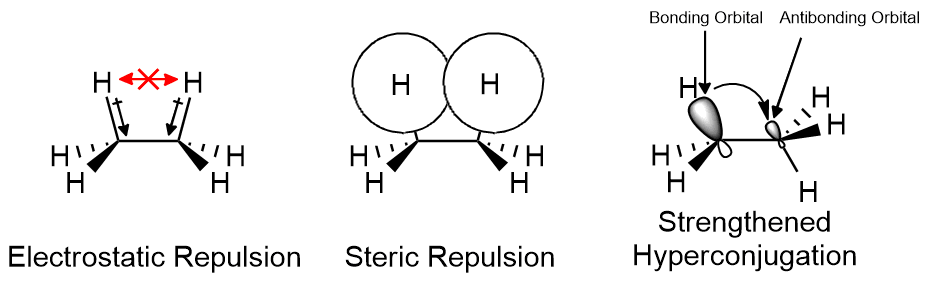 Illustrates the contributions of steric and electrostatic interactions as well as hyperconjugation to the energy barrier of rotation in ethane.